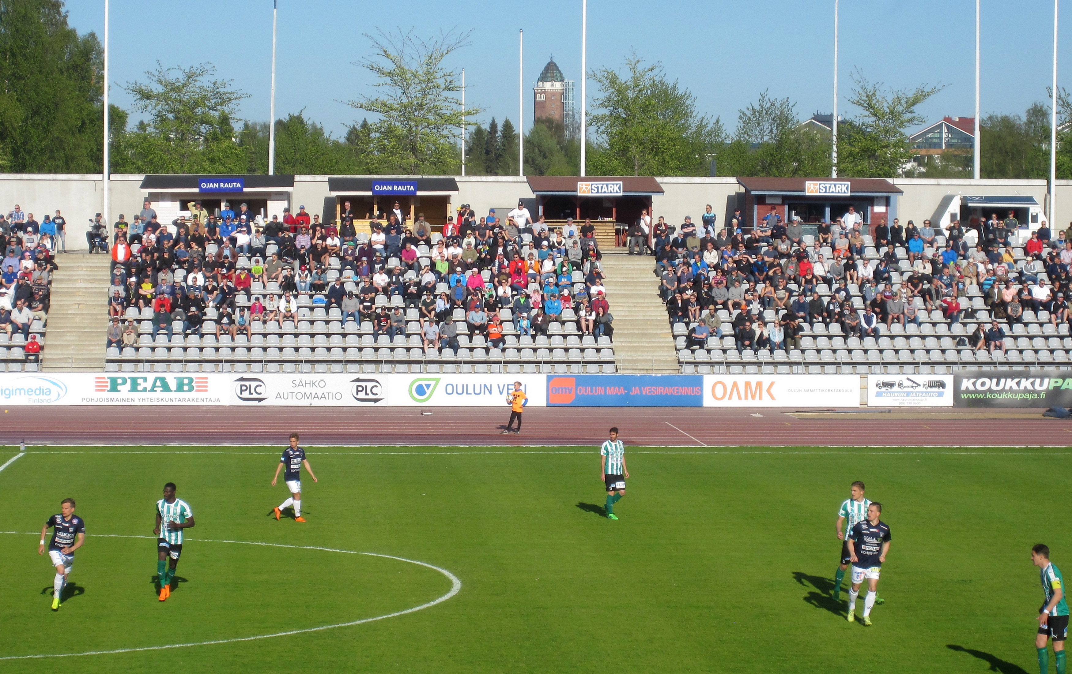 AC Oulu vs. FC KTP game in the Raatti stadium in Oulu.